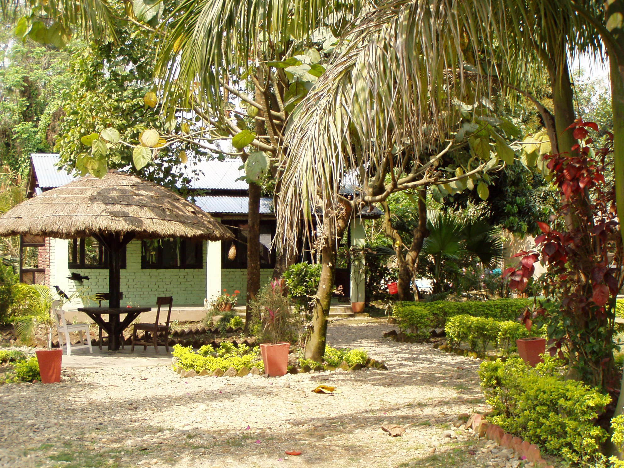 Holiday resort in Sauraha (Nepal)